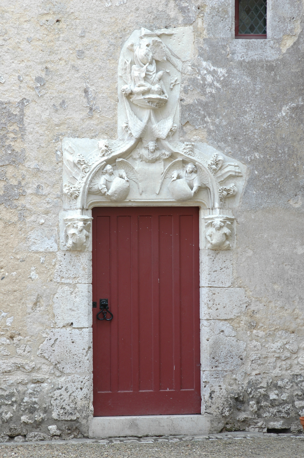 Château de Fougères-sur-Bièvre, entrance of the south wing